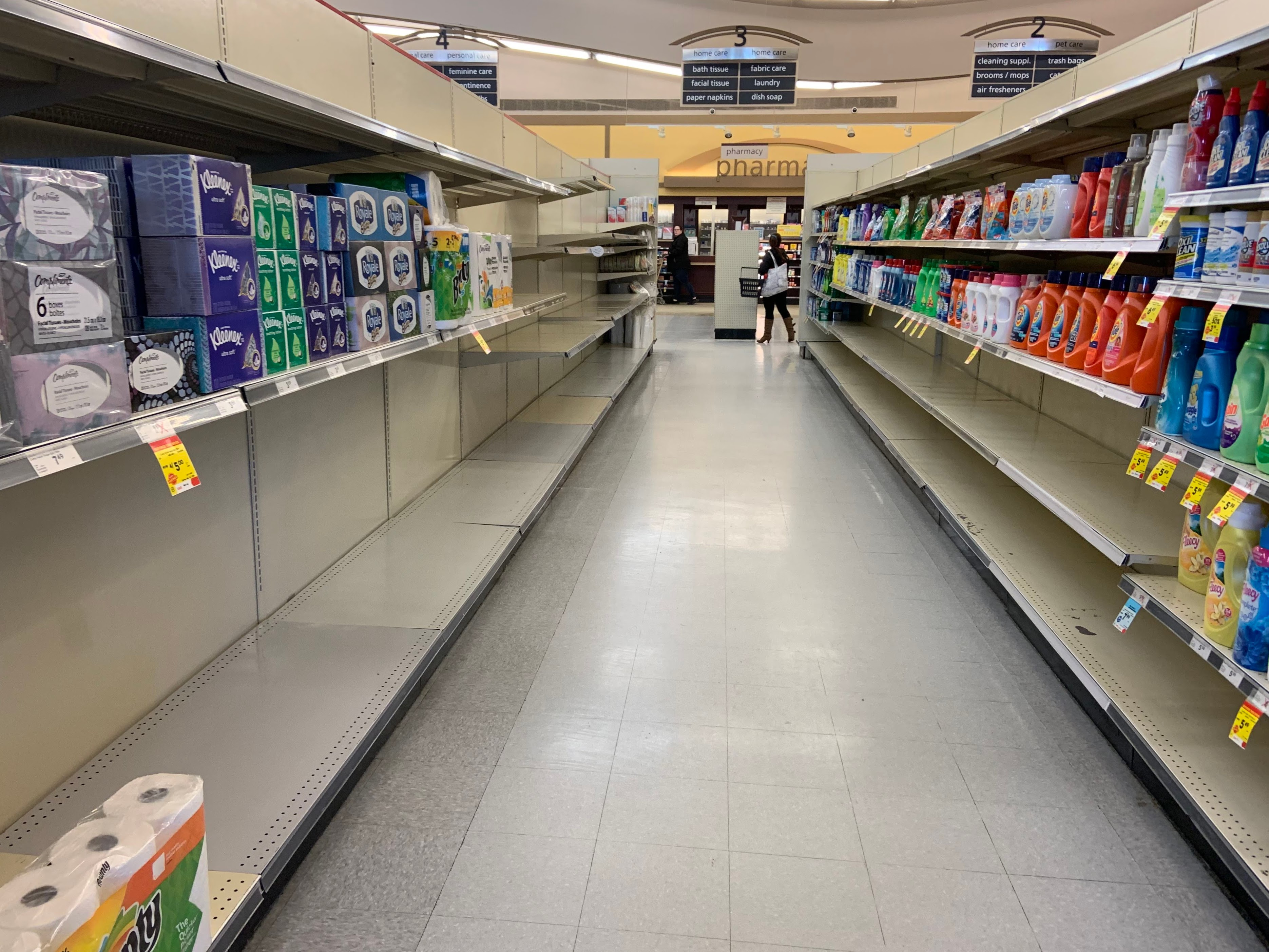 Supermarket shelves that stock cleaning supplies are empty due to panic-buying as the result of the COVID-19 coronavirus outbreak.